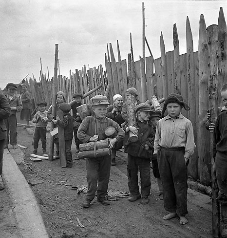 Russian children from eastern Karelia in a Finnish internment camp gathering wood. The Russians were regarded as unreliable and were held interned during the war. Best reader image of the 1940s in Helsingin Sanomat.